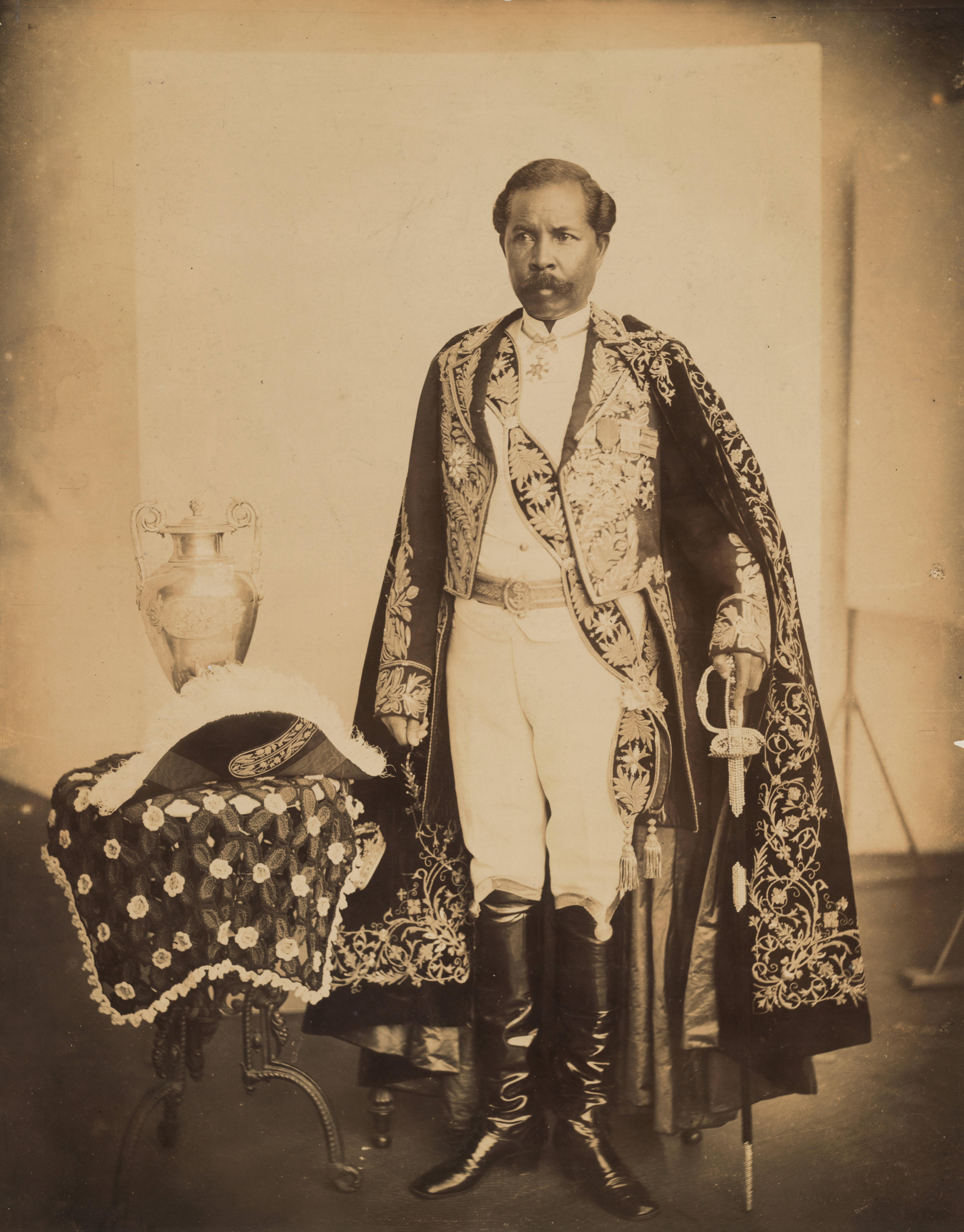 Official studio portrait of Rainilaiarivony, Prime Minister and Commander in Chief. Commercially produced print.; Part of set of mounted prints, mostly commercially produced, collated by Rev William John Edmonds, stationed in Madagascar 1892-1898.